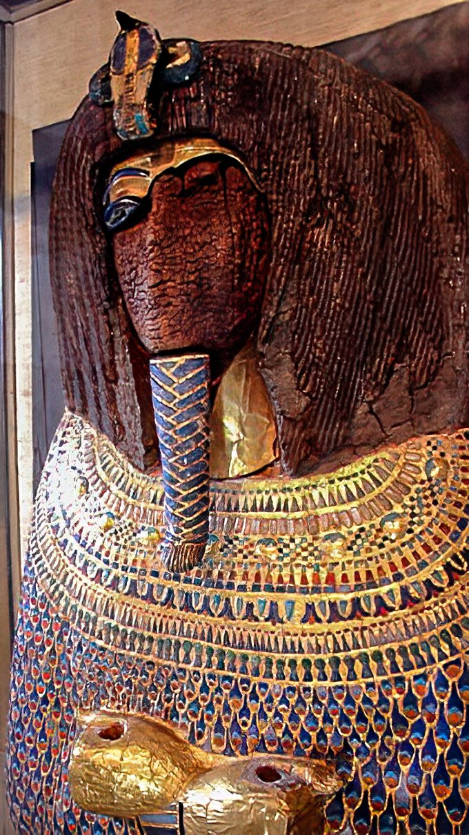 This is perhaps the most mysterious royal sarcophagus located in the Egyptian Museum of Cairo. Egyptologists today generally agree that it belongs to either pharaoh Akhenaten or Smenkhkare based on the numerous Amarna era objects found in Tomb KV55 of the Valley of the Kings. However, considering the amount of damnatio memoriae inflicted against the sarcophagus, where all its royal cartouches were erased, it might well have belonged to Akhenaten himself whose memory was proscribed with the restoration of the cult of Amun after his reign. The sarcophagus was found in January 1907 in Tomb KV55 by Theodore Davis and Edward R. Ayrton.